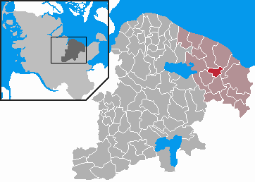 This map shows the area of the Stadt (town) Lütjenburg in the Kreis (district) Plön, Schleswig-Holstein, Germany.